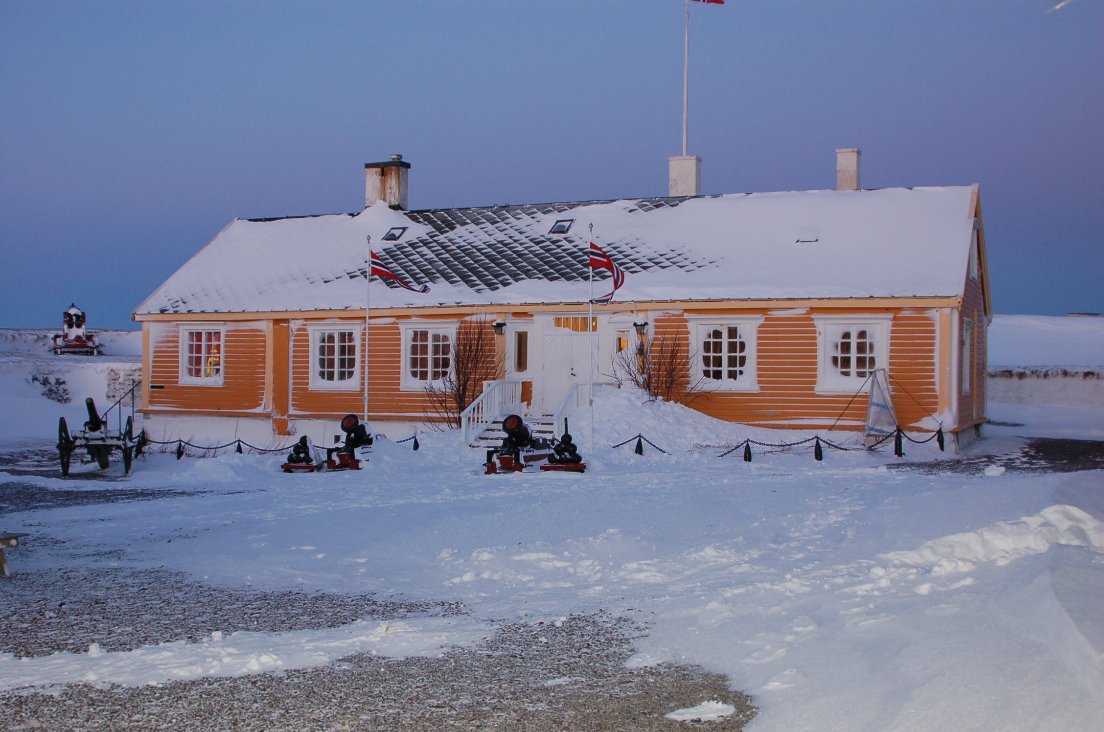 The commandant residens Vardøhus festning